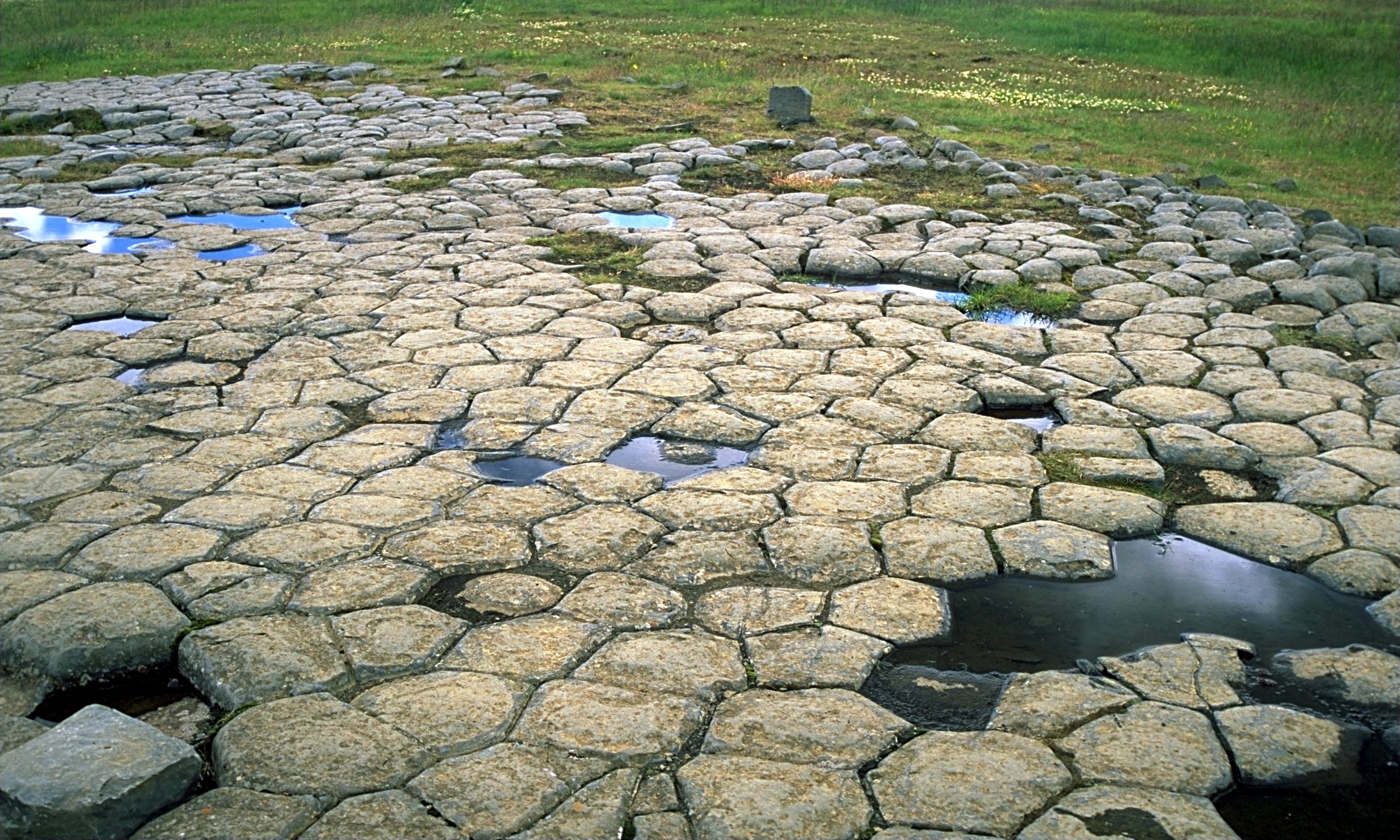 Kirkjugólf – Basalt floor near Kirkjubæjarklaustur, Iceland Photo was taken using the following technique: Film: Fuji Velvia Lens: 2.8/28 Filter: none Body: Minolta Dynax 7 Support: Image with Information in English Bild mit Informationen auf Deutsch